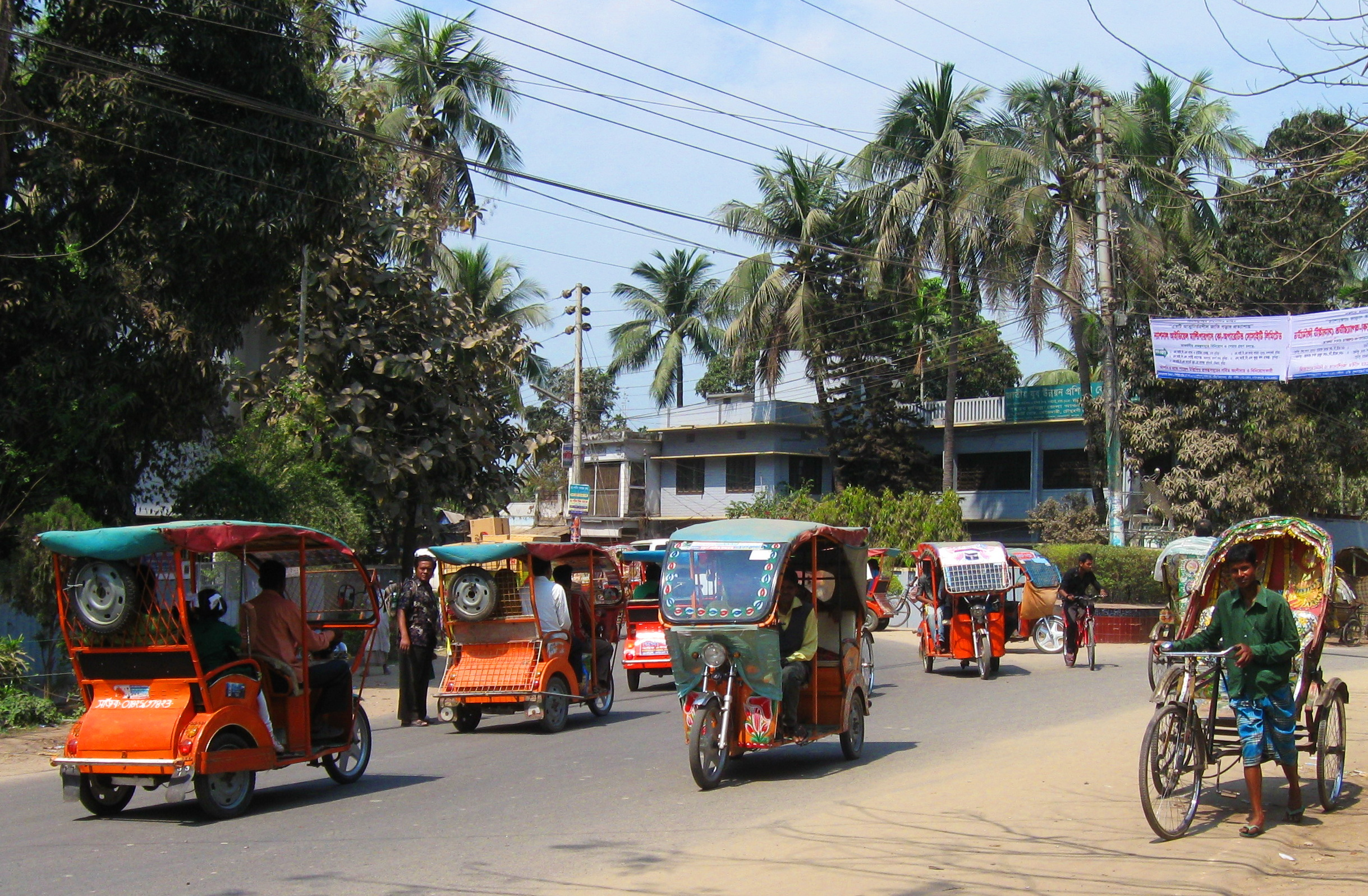 Electric trike in recent years began to overwhelm Comilla streets, mostly because of its convenience in short distance commutation throughout the main town.